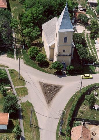 Hejőbába, Hungary, aerialphotography